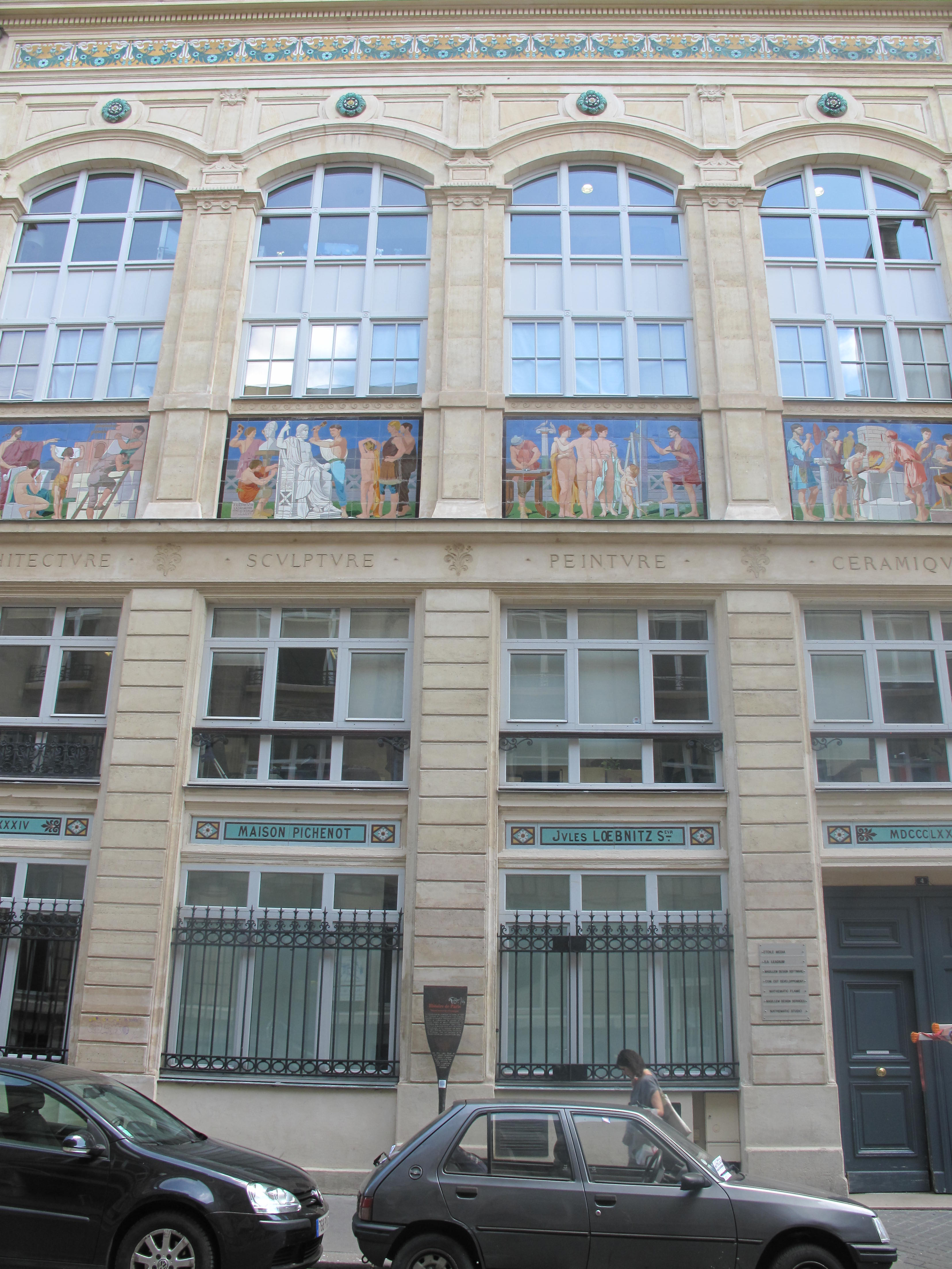 Former faience factory Loebnitz, 4 rue de la Pierre-Levée, Paris 11th arrond.